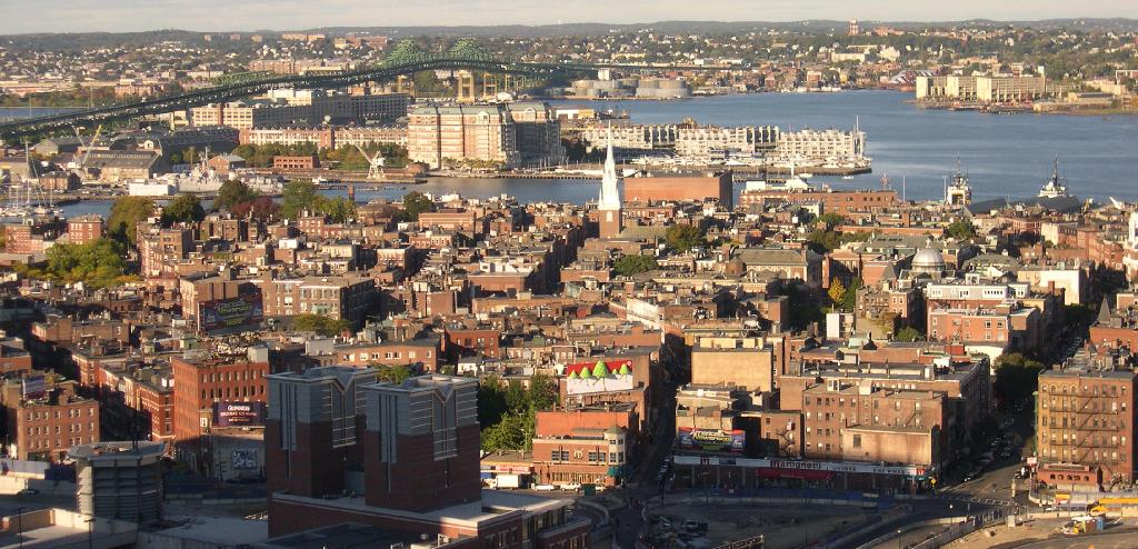 Image of the North End, Boston neighborhood. The Old North Church is at center, a Big Dig vent building is near the bottom, and the green Tobin Bridge over the Mystic River (between Charlestown and Chelsea) is at the top. The confluence of the Charles and Mystic Rivers where they empty into Boston Harbor is also visible.